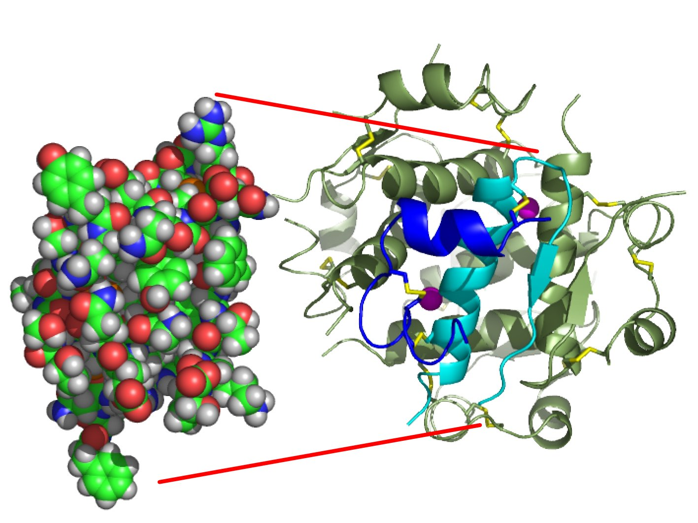 Insulin Monomer created with pymol, inkscape, and gimp from NMR structure 1ai0 in the pdb. Ref: Chang, X., Jorgensen, A.M., Bardrum, P., Led, J.J.